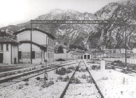 Piazza Brembana rail yard